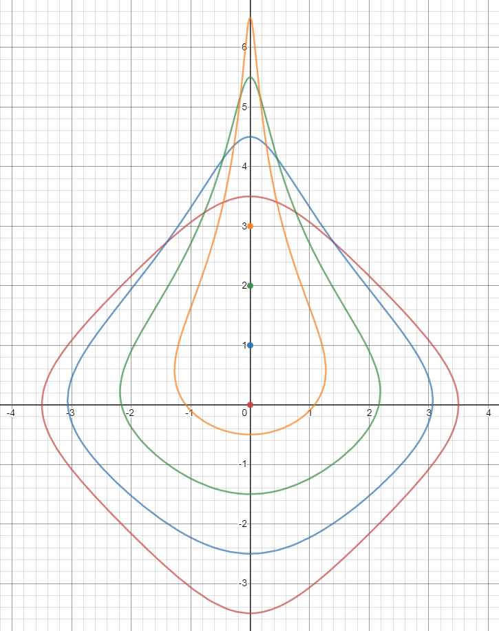 Circles about the points (0,0), (0,1), (0,2) and (0,3) of radius 3.5 in the Lobachevsky hyperbolic coordinates. Note that the circles are invariant under translation in the x-coordinate, and that the distortion is symmetric in positive and negative translation in the y-coordinate. Produced in Desmos (